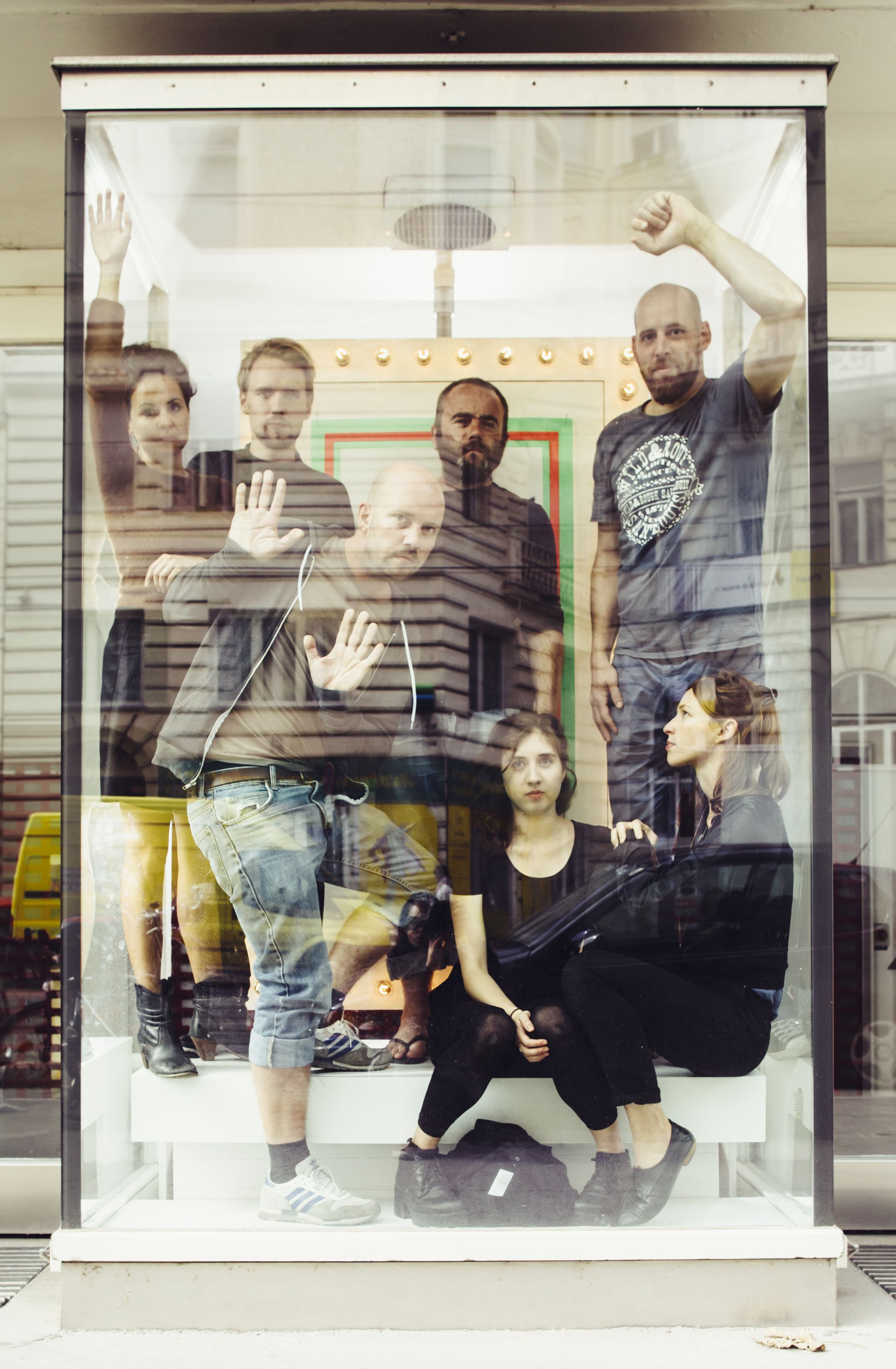 Schauspielhaus Wien - Ensemble